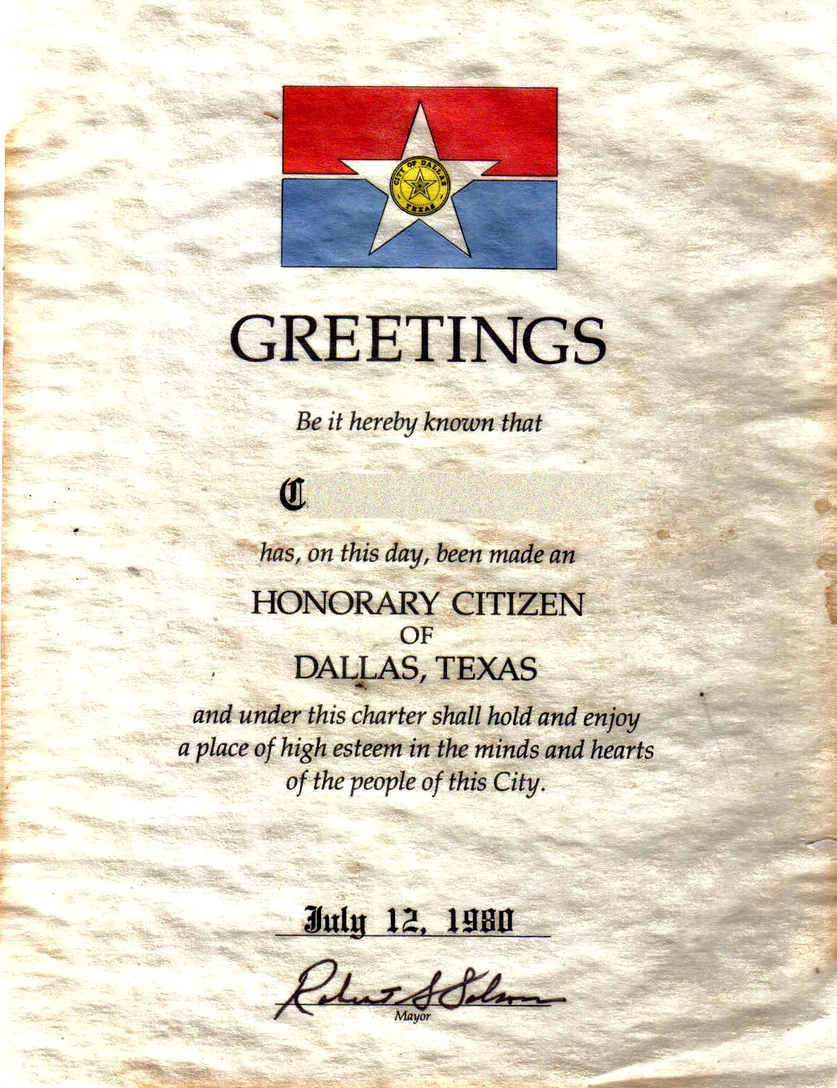 Honorary Citizenship Document